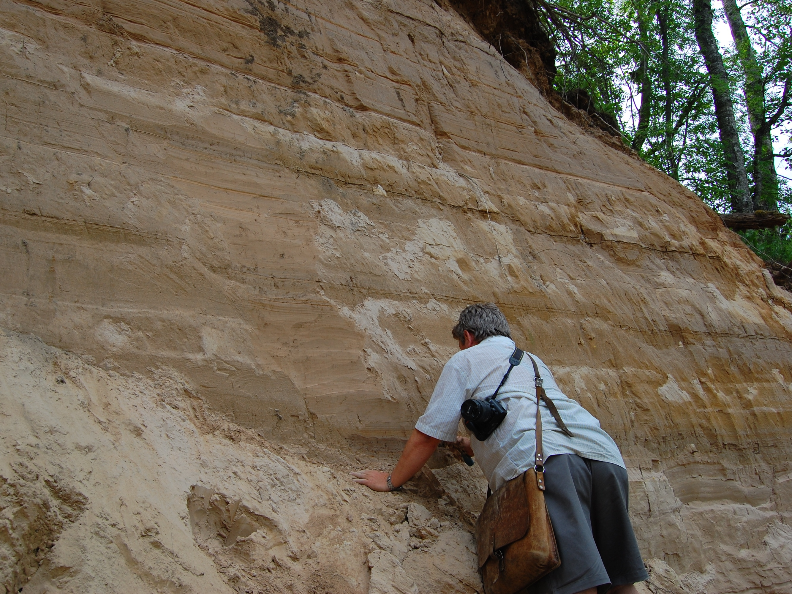 Varved glaciomarine sediments in Dalarna, Sweden